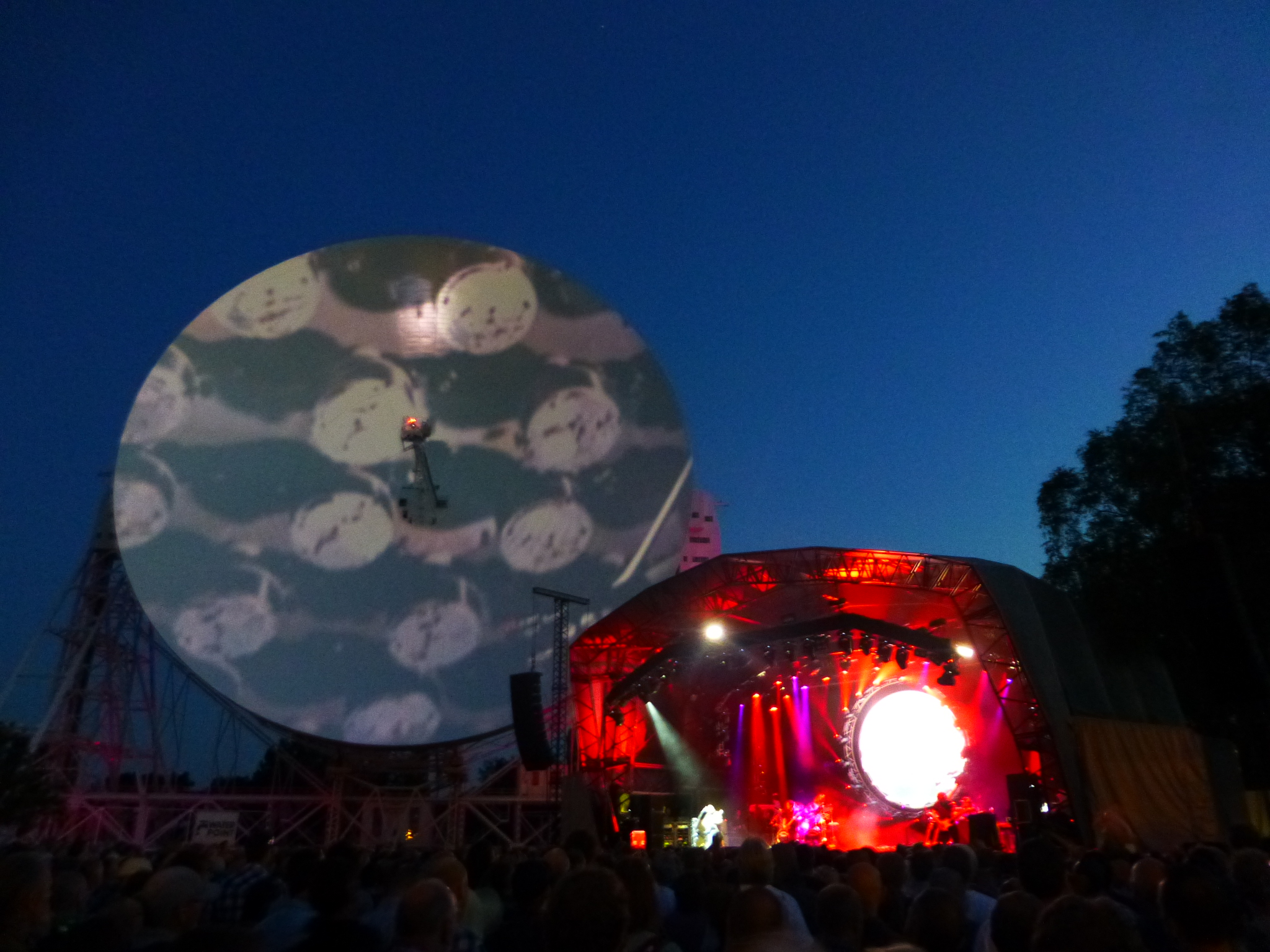 The Australian Pink Floyd playing "The Dark Side of the Moon" infront of the Lovell Telescope at Jodrell Bank.